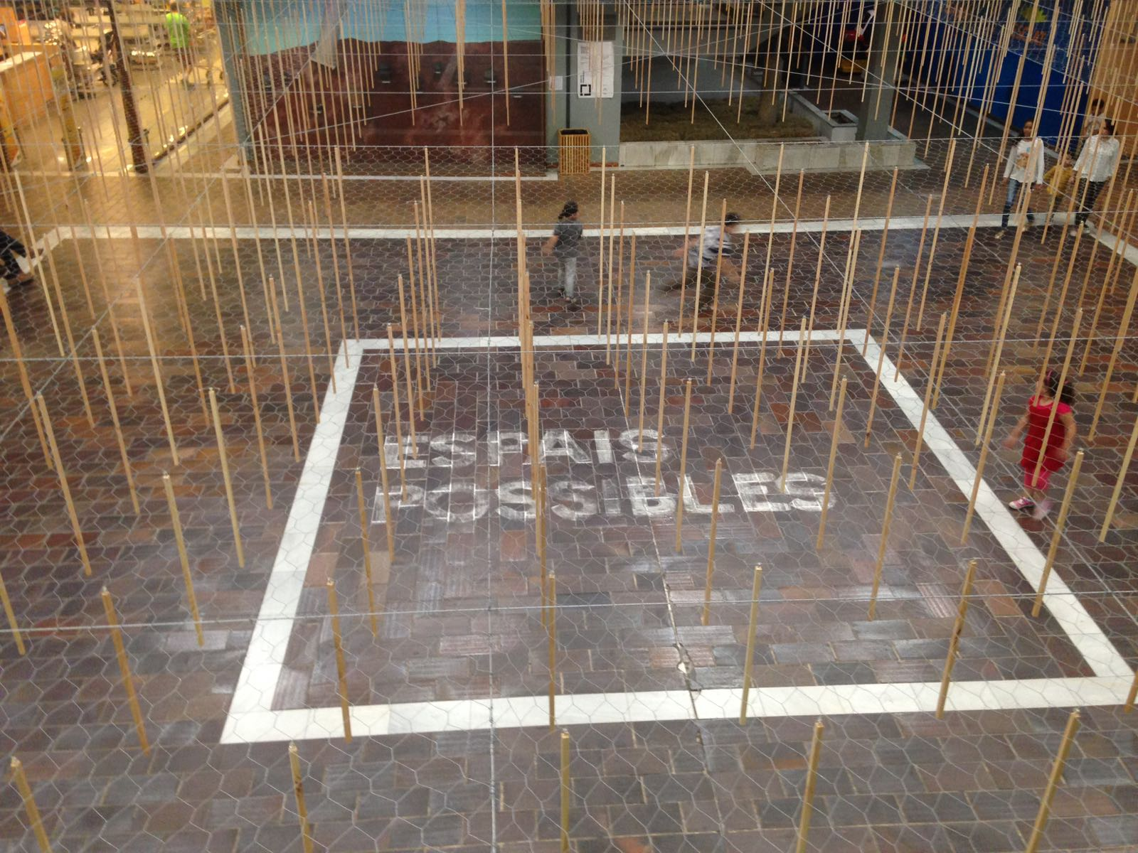 Podem veure l'actual Plaça, un espai de performances i on trobem espais familiars